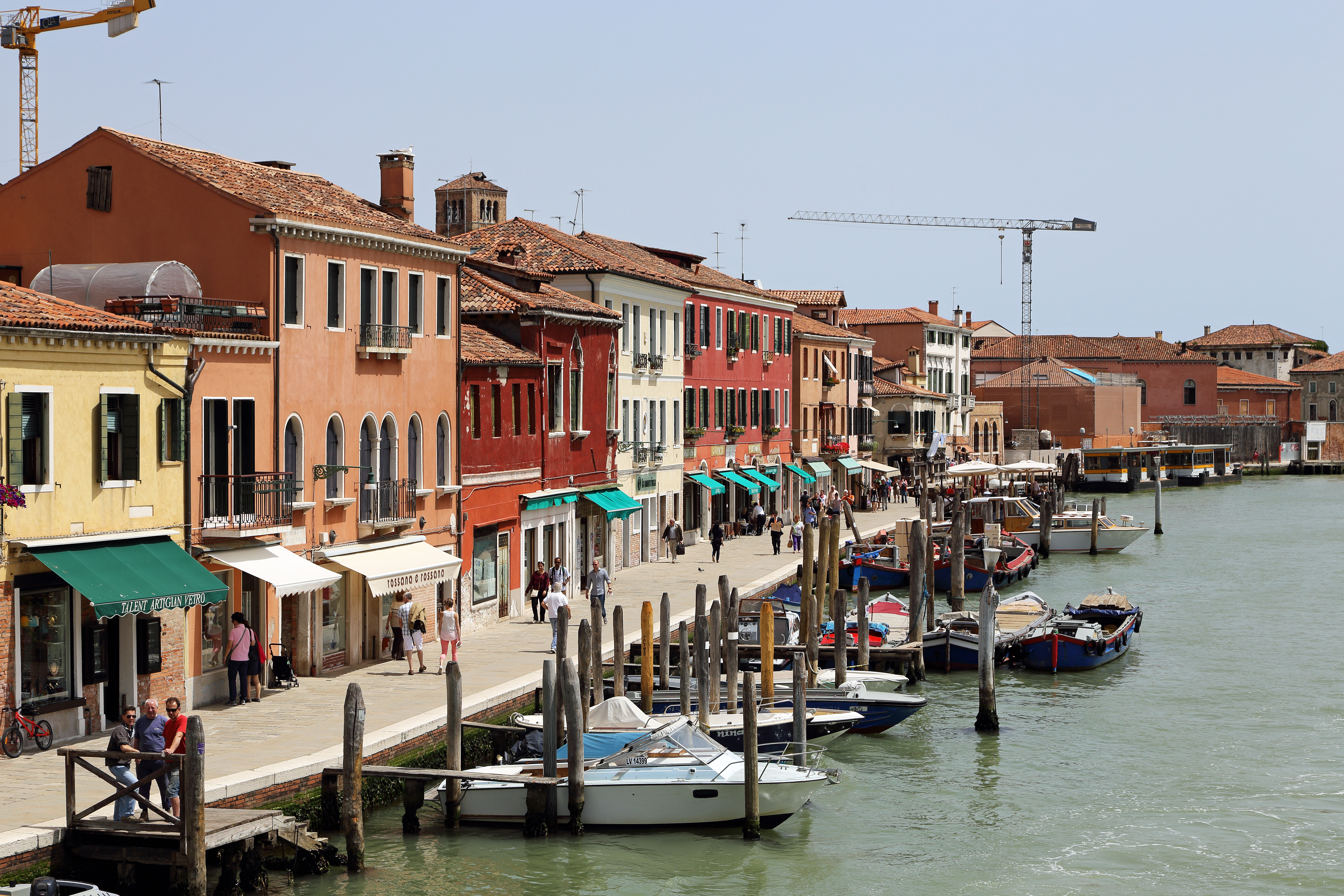 Murano (Venice, Italy): Riva Longa (street) and Canale Ponte Lungo